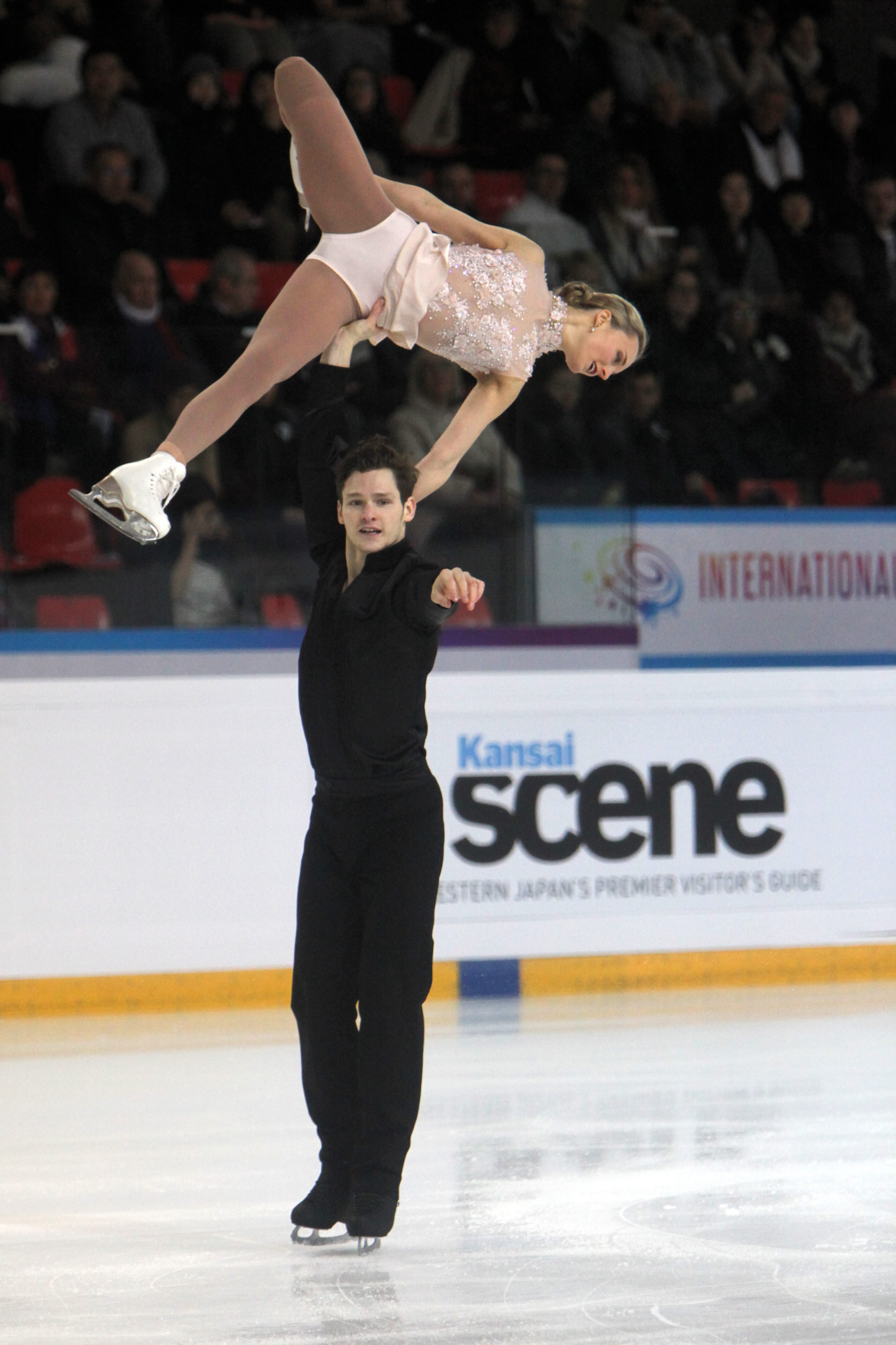 Camille Ruest and Andrew Wolfe during the Pairs Free Skating at the Internationaux de France de Patinage 2018.